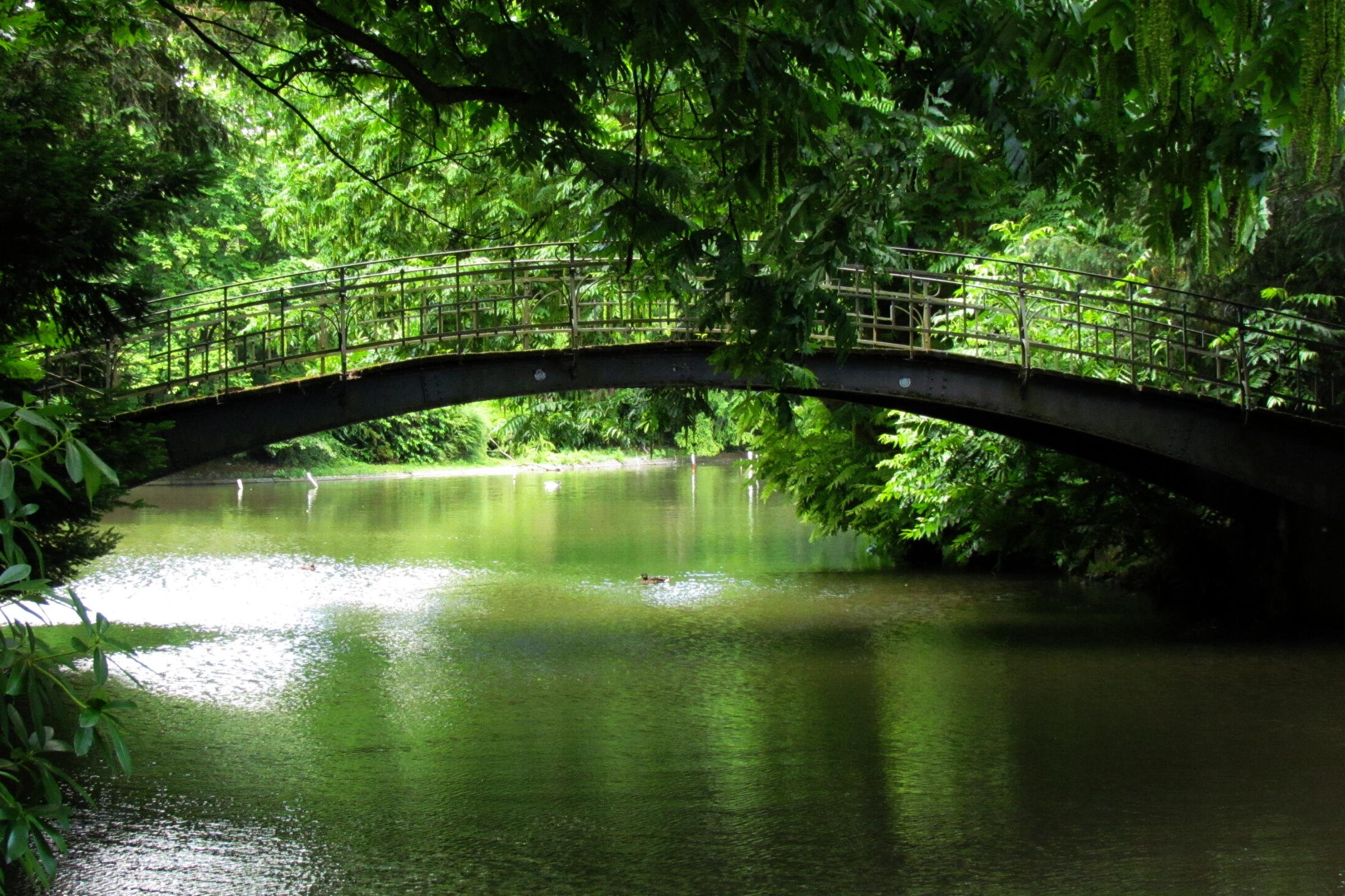 This is a photograph of an architectural monument. 008